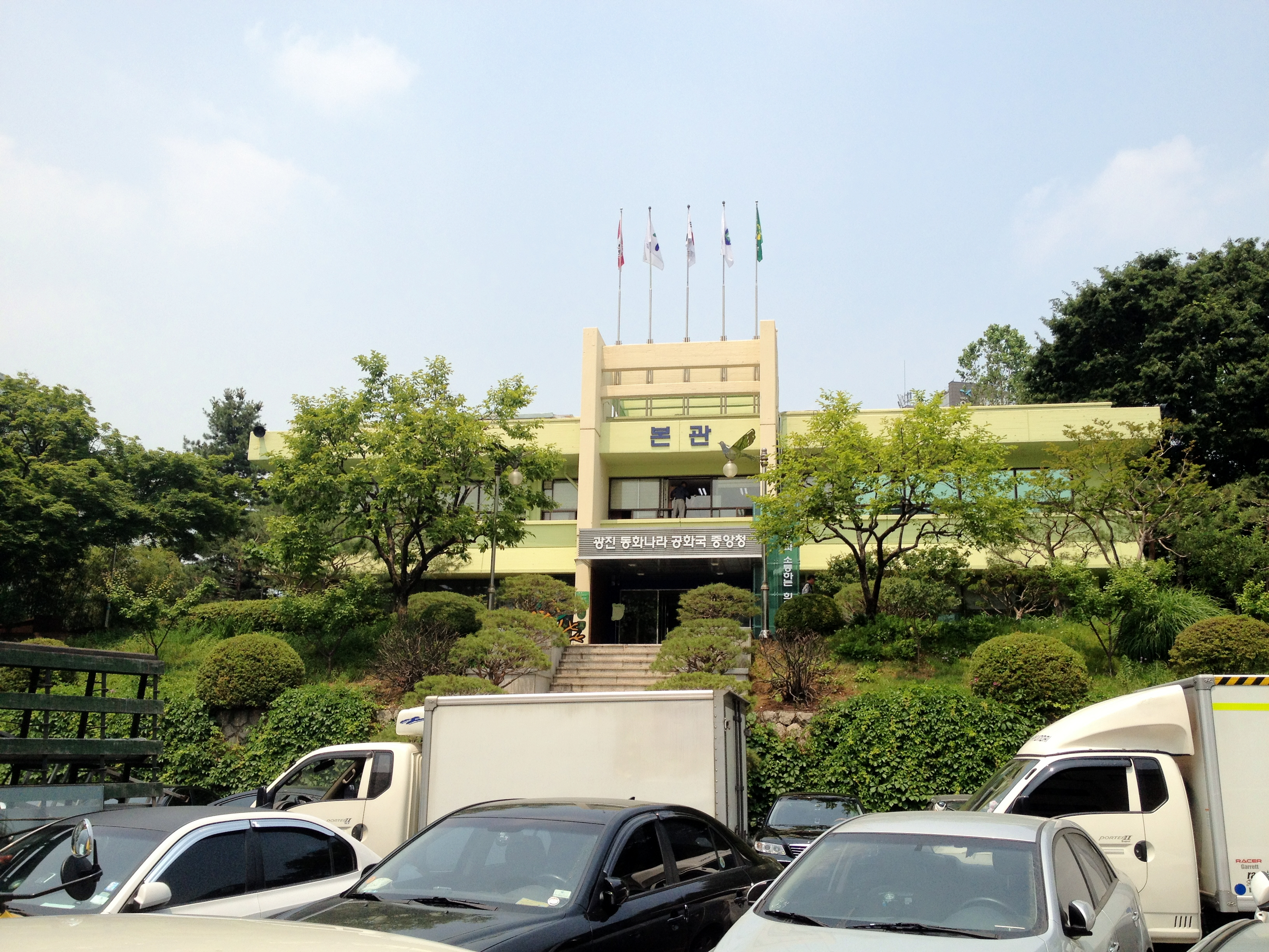 Gwangjin-gu Office(Seoul Special City)